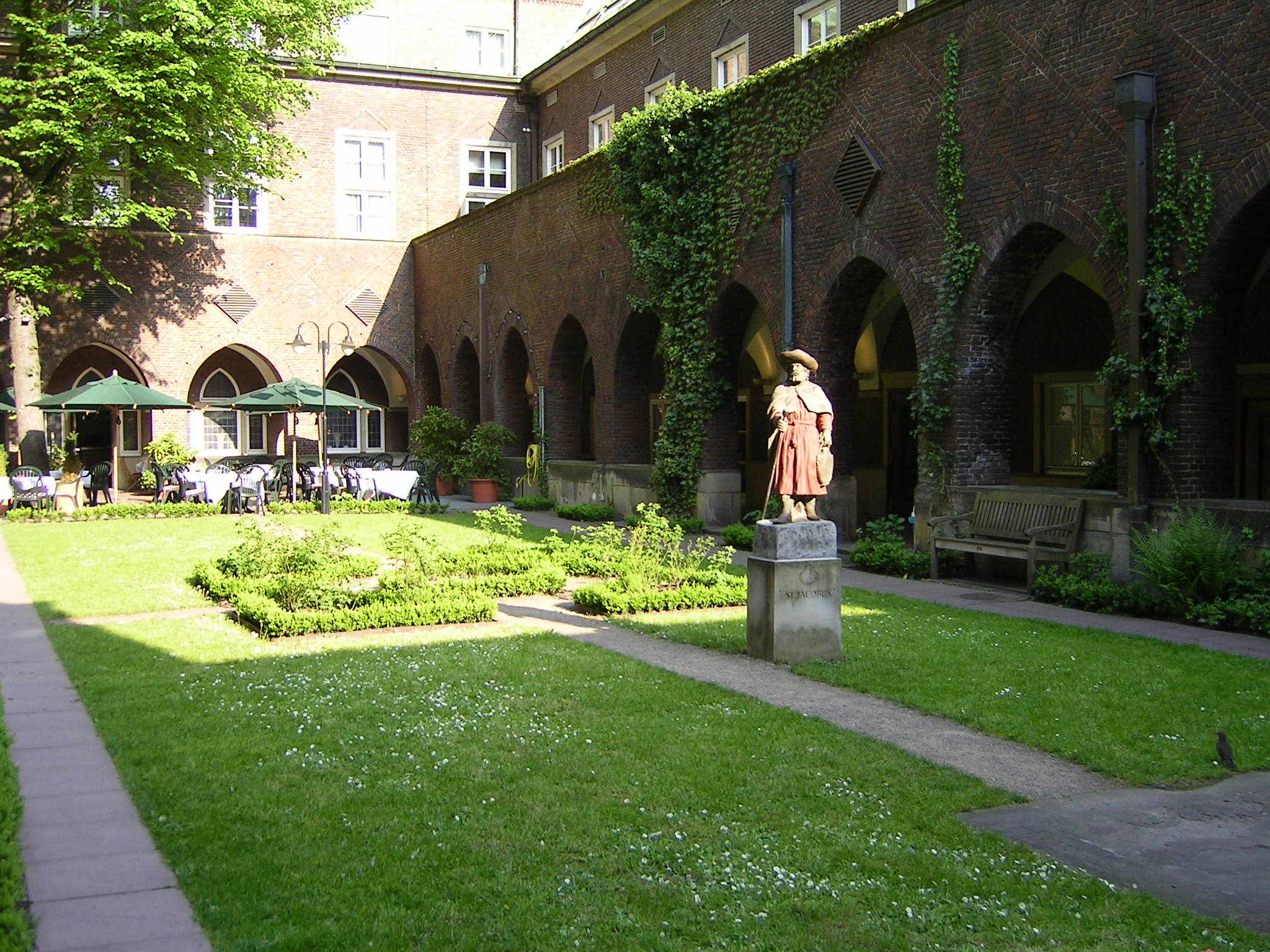 Information board - The bible garden in the court of Bremen Cathedral|Bremen Cathedral cathedral parish house and Die Glocke concert hall in Bremen, Germany. The sculpture showing St James the Greater was part of a fountain until World War II.